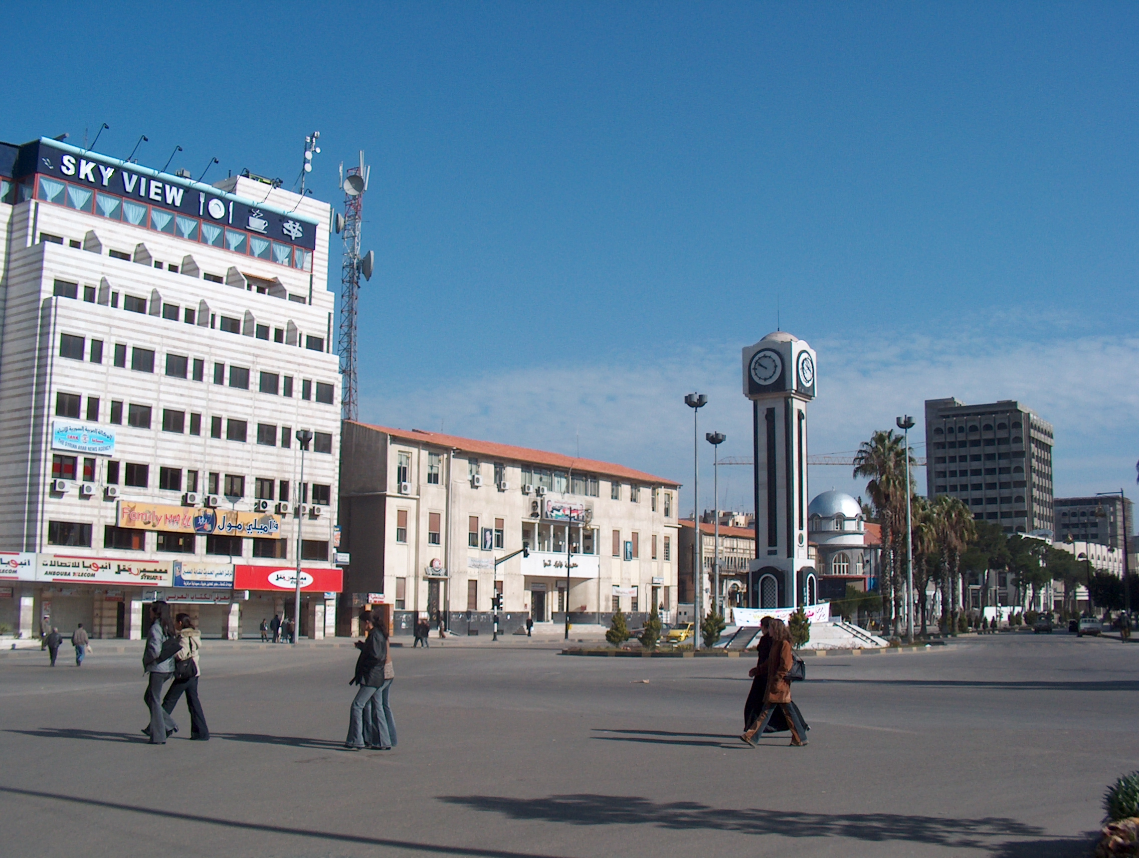 own work/camera Date of creation 2004